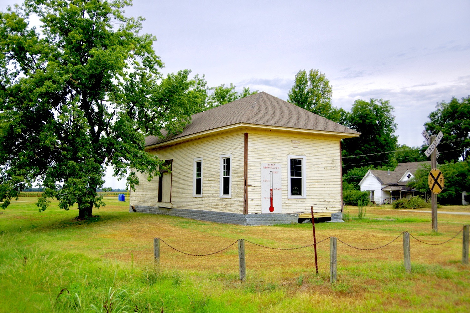 Former train station in Cardwell, Missouri, United States.